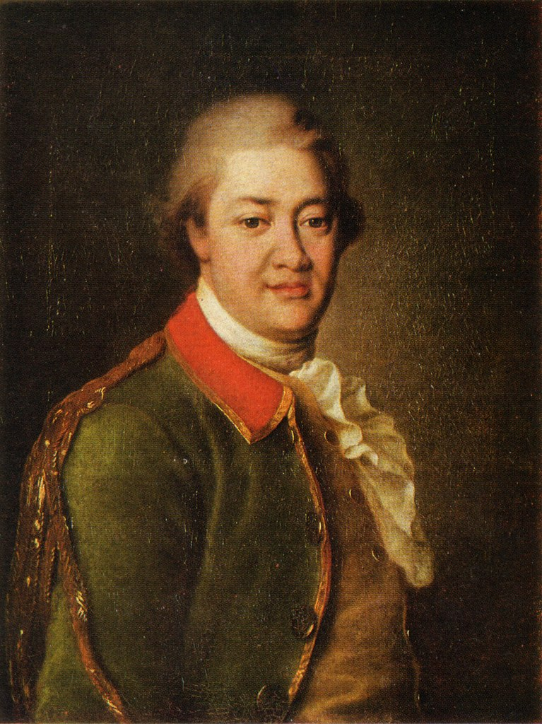 Krechetnikov Mikhail Nikitich